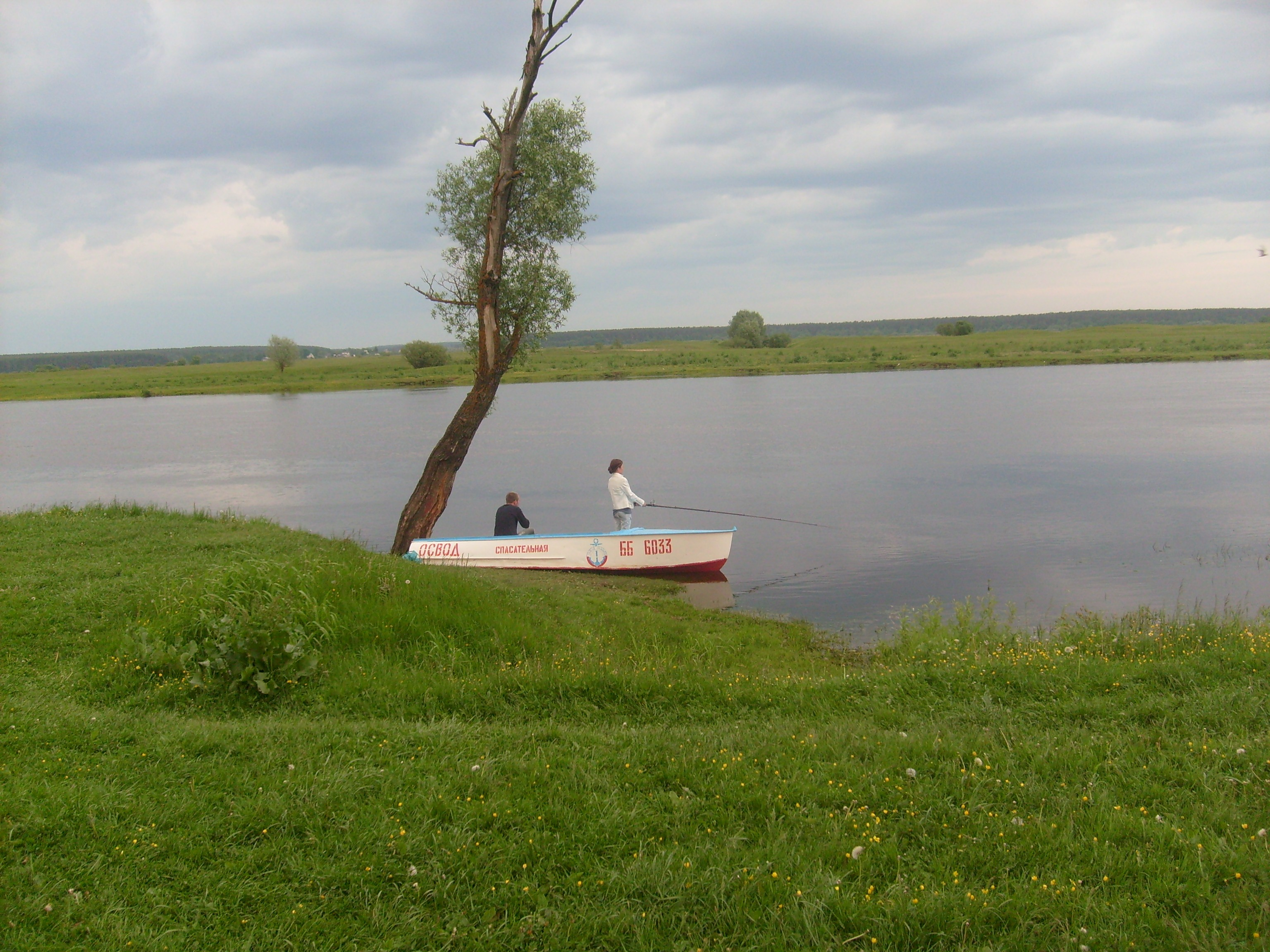 Fishing on the river Sozh. City beach